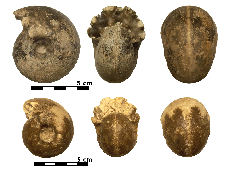 Fagesia (PERVINQUIÉRE) spp. From Morocco.